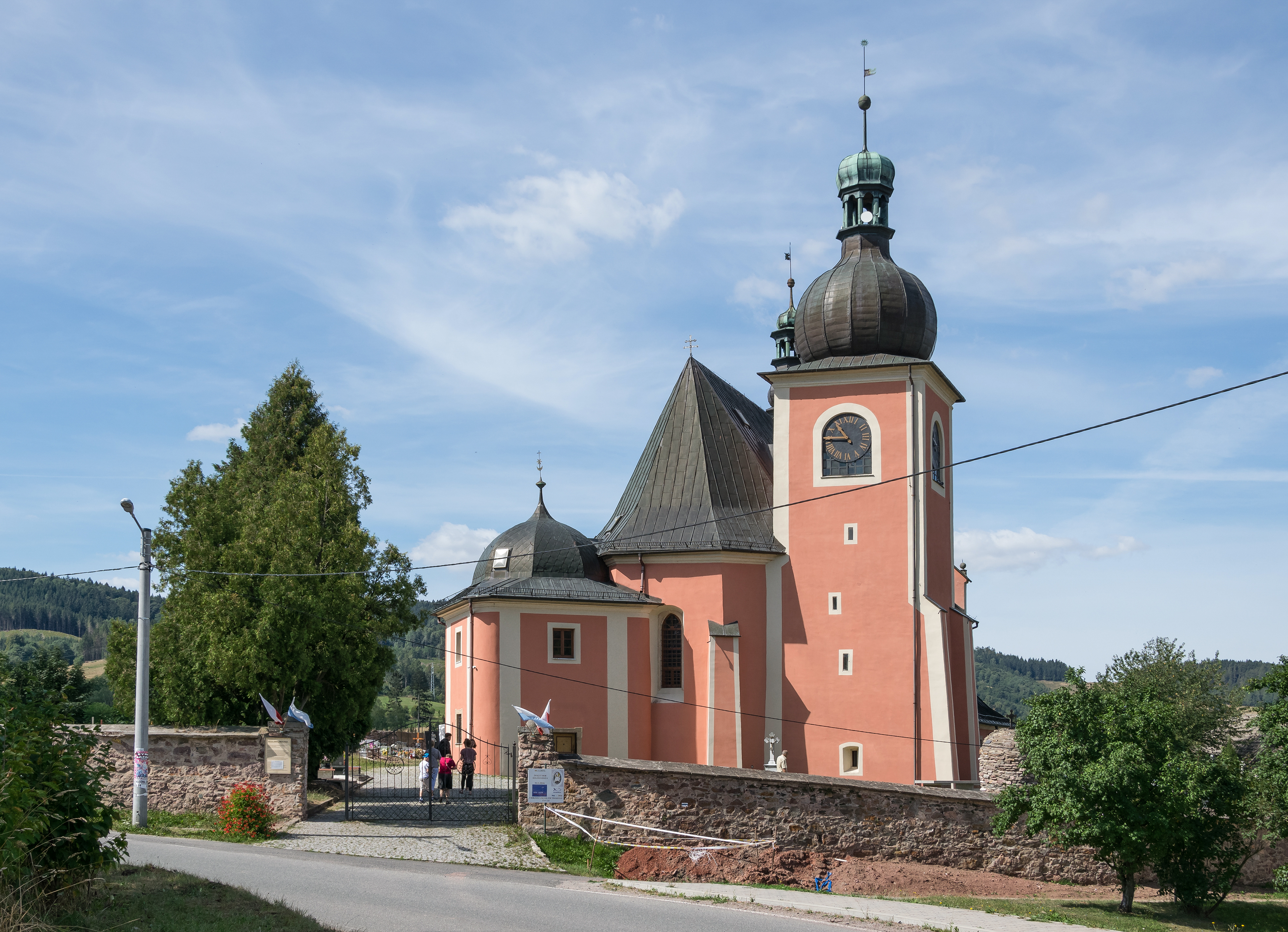 Saint Michael Archangel church in Lewin Kłodzki Wikidata has entry Q24578624 with data related to this item.